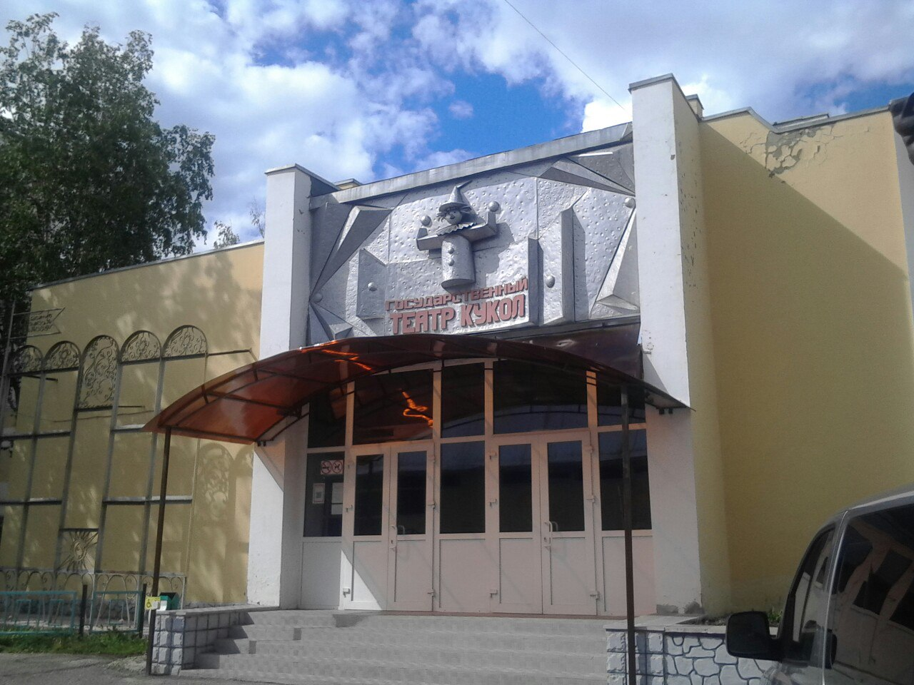 The photo of The State Puppet Theatre of Mordovia Republic, that is located in Saransk.